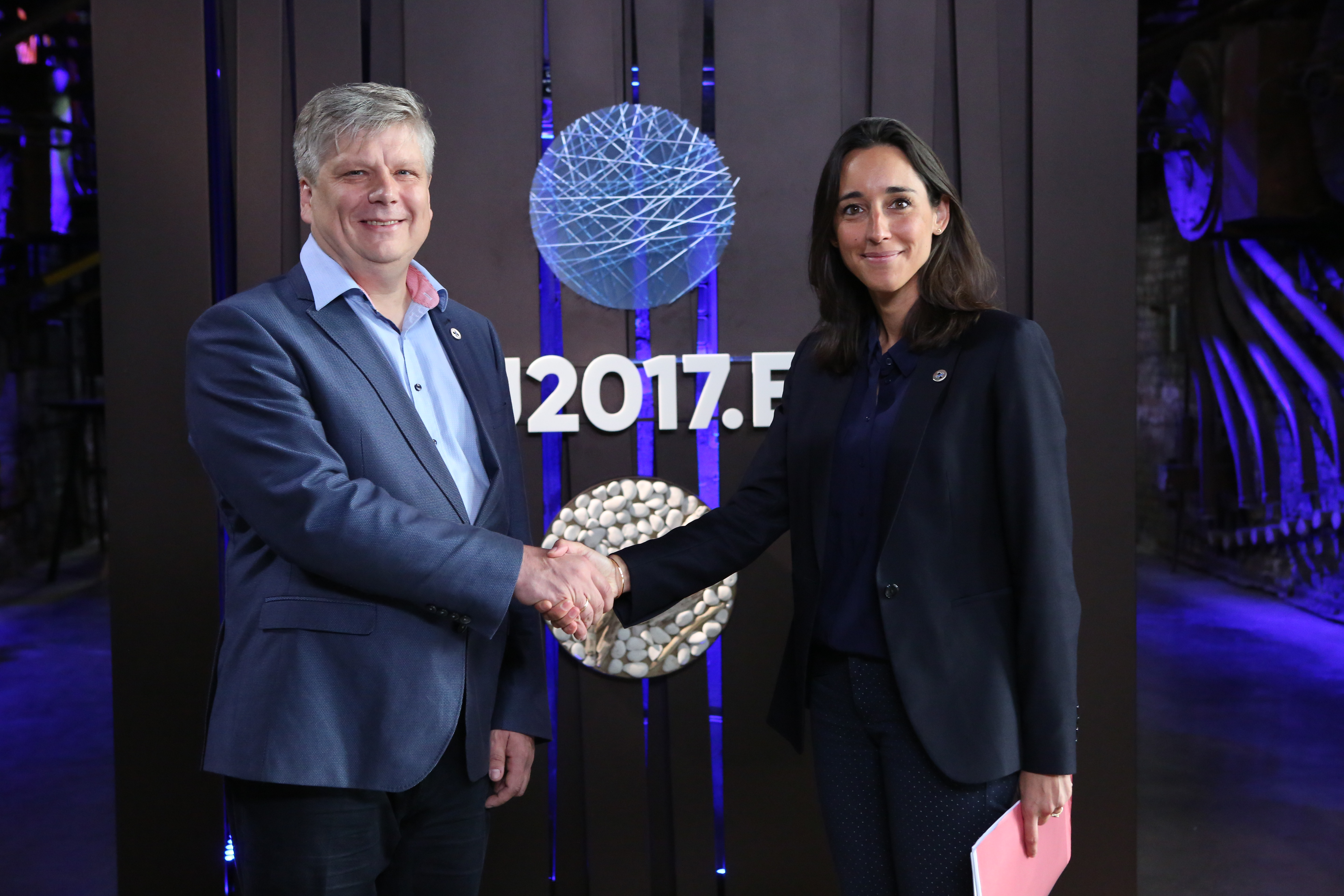 (l-r) Siim Kiisler, Minister, Ministry of Environment, Estonia; Brune Poirson, Secretary of State, Ministry of Environment, France (Eco-Innovation) Photo: Annika Haas (EU2017EE)